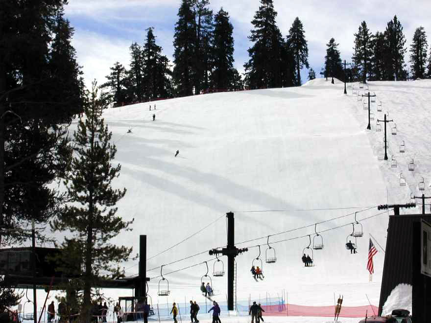 Badger Pass skiing area.